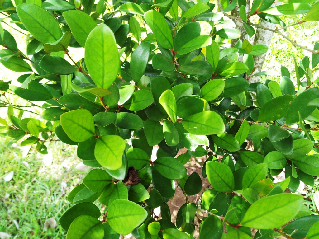 Coffea myrtifolia - Cafe Marron tree - Maurice